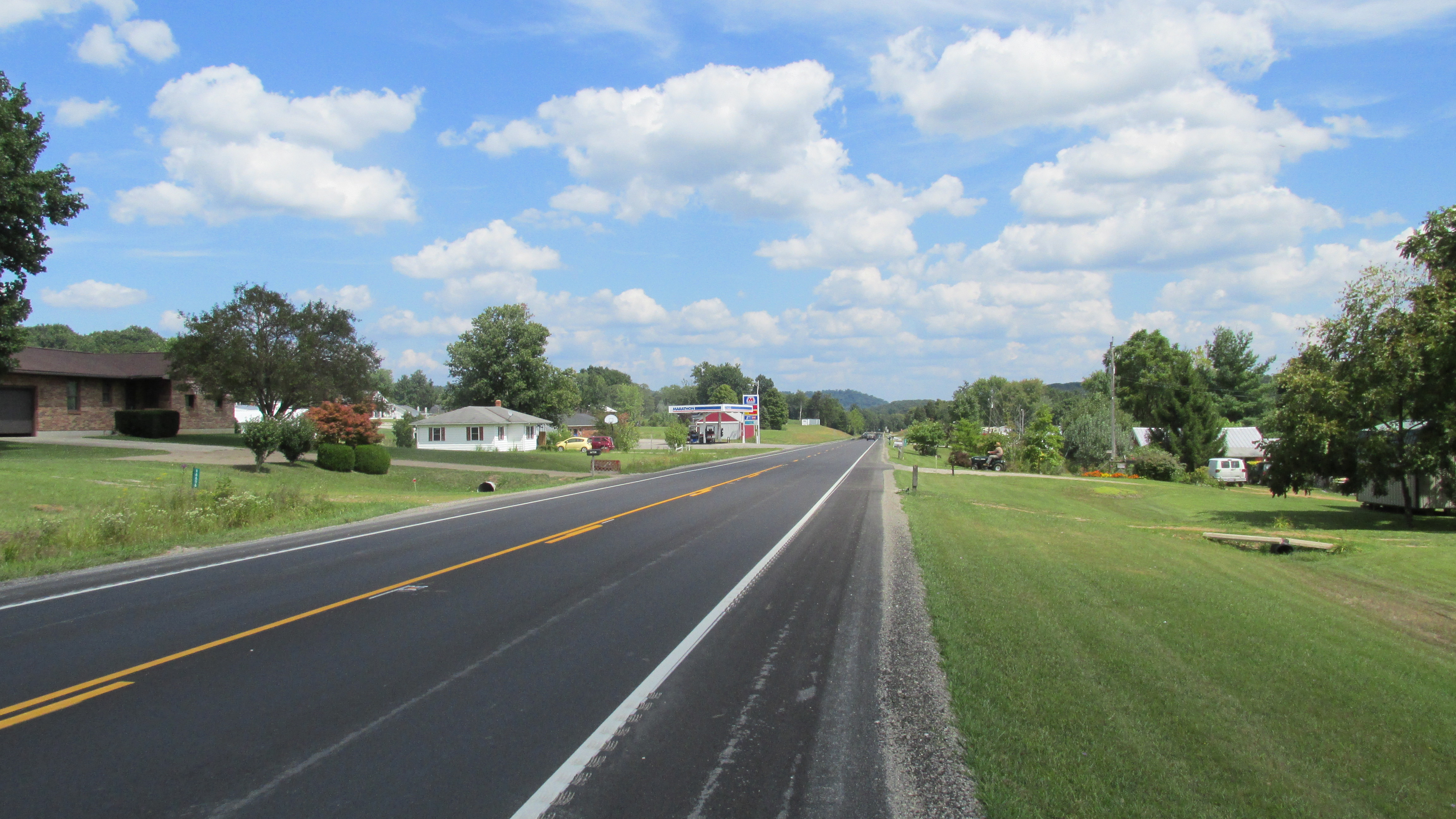 Looking east on Ohio Highway 125 in Lynx.